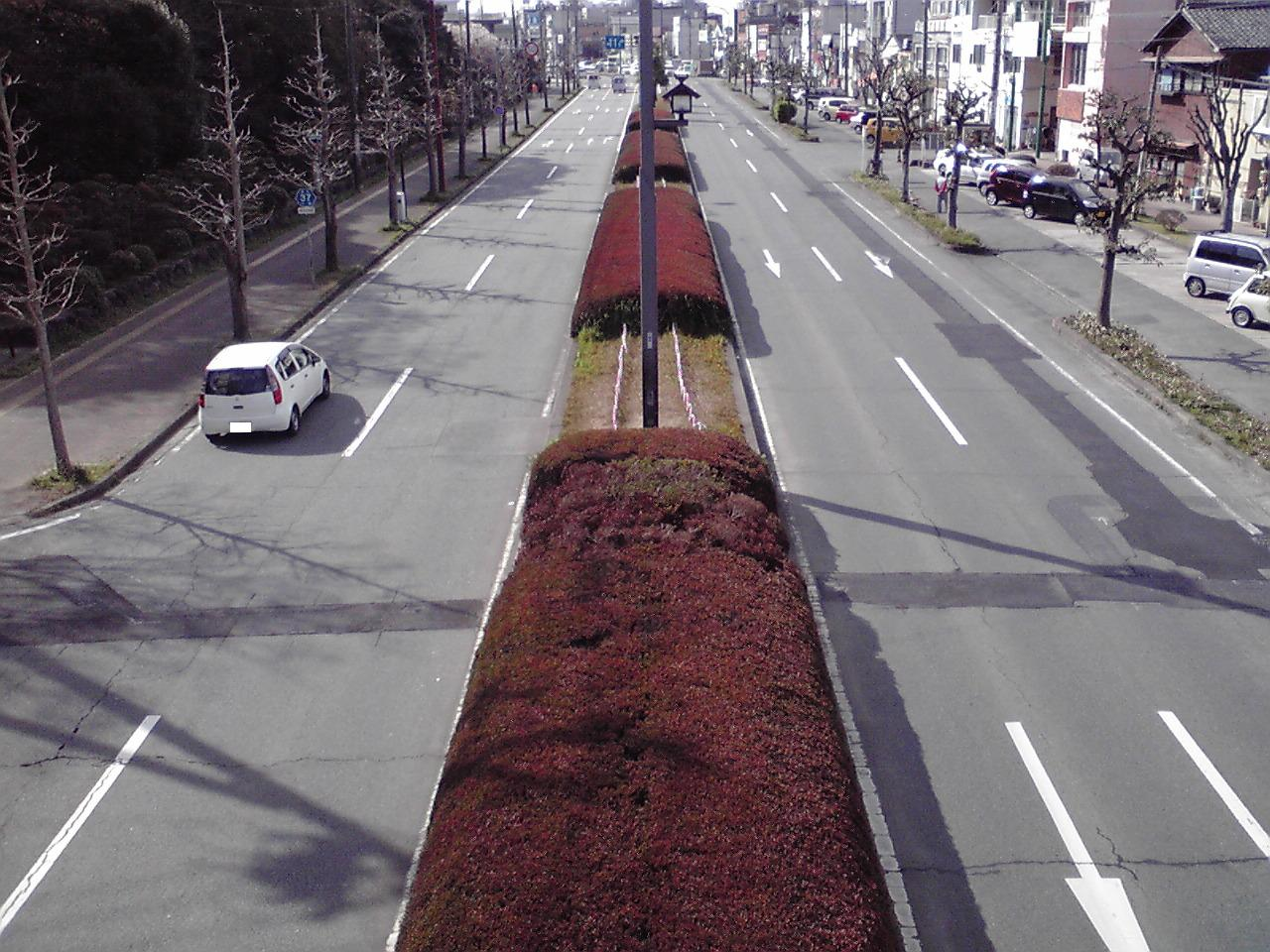 The Mie Prefectural Road Route 37 (Toba Matsusaka Line) in Ise City